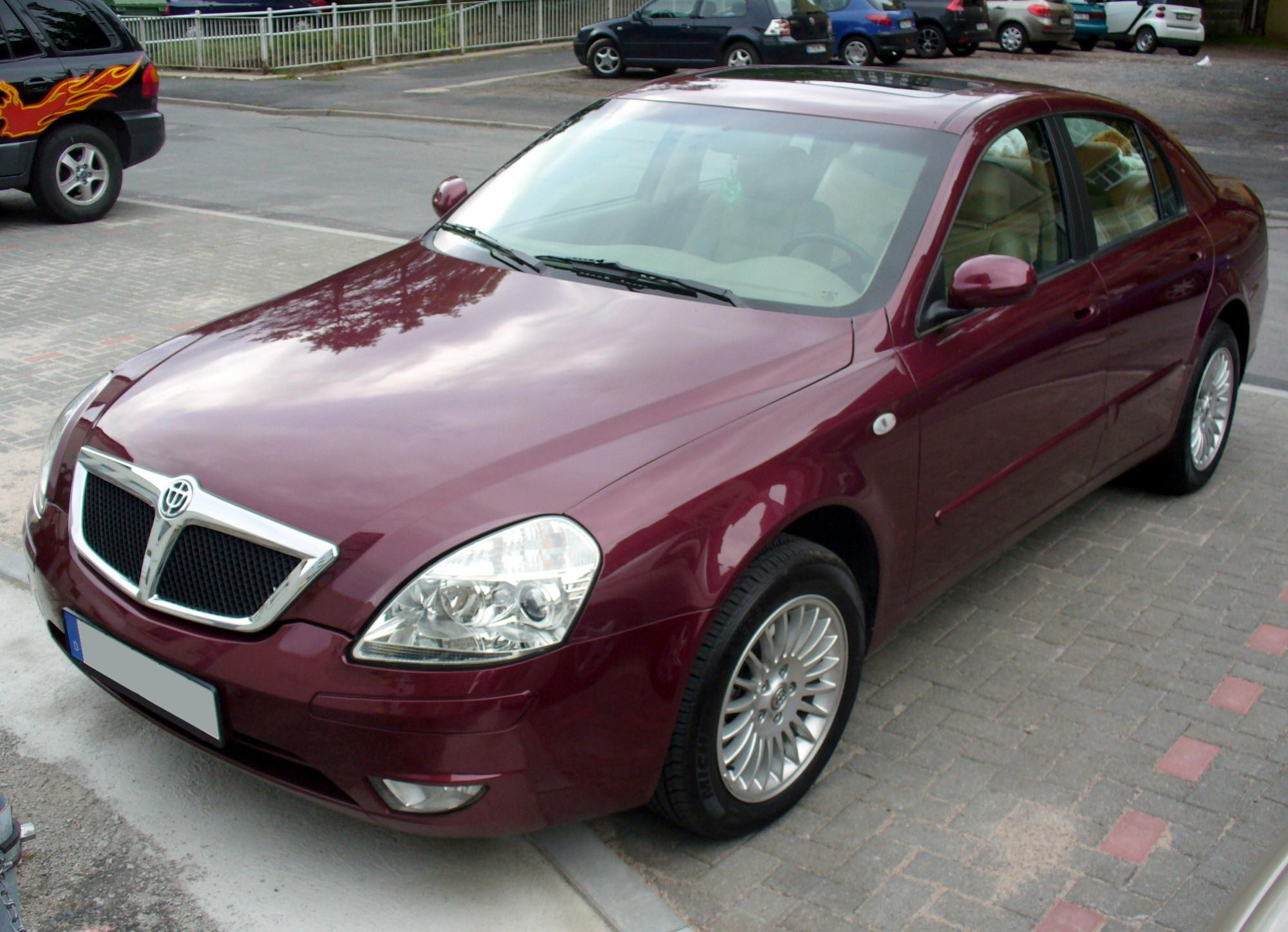 Brilliance BS6